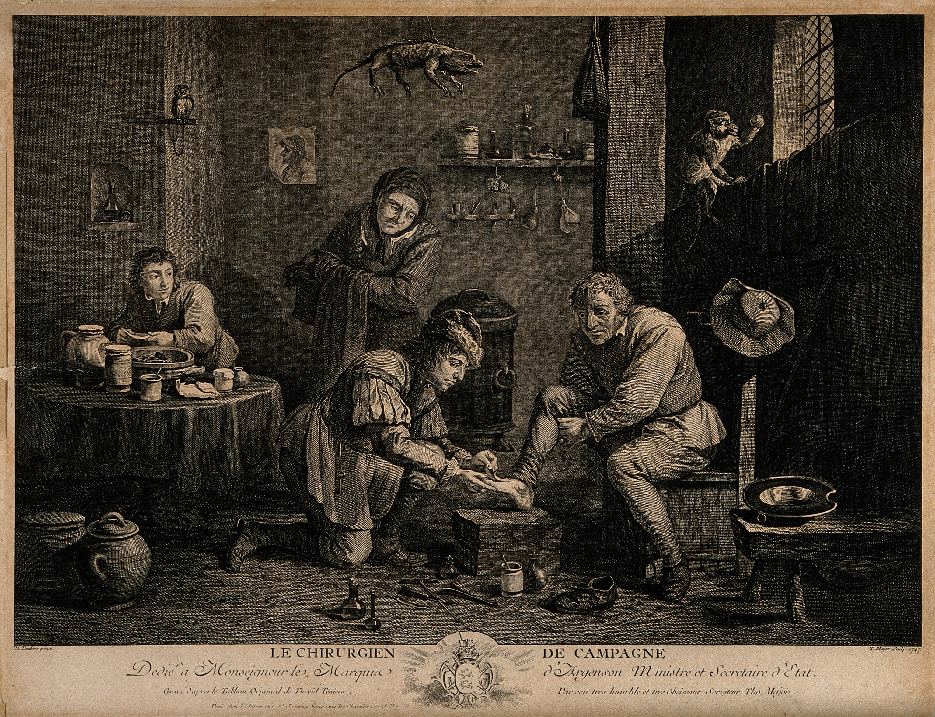 A rural surgeon treating a male patient's foot, in the background an assistant is mixing a concoction with a pestle and mortar in a surgery. Engraving by T. Major, 1747, after D. Teniers, the younger. Lettering underneath the picture reads: Le chirurgien de campagne. Dedié à Monseigneur le Marquis d'Argenson ministre et secretaire d'Etat. Par son tres humble et tres obeissant serviteur Tho. Major. D. Teniers pinx. T. Major sculp. 1747. Iconographic Collections Keywords: David Teniers; Thomas Major; Marquis d'Argenson